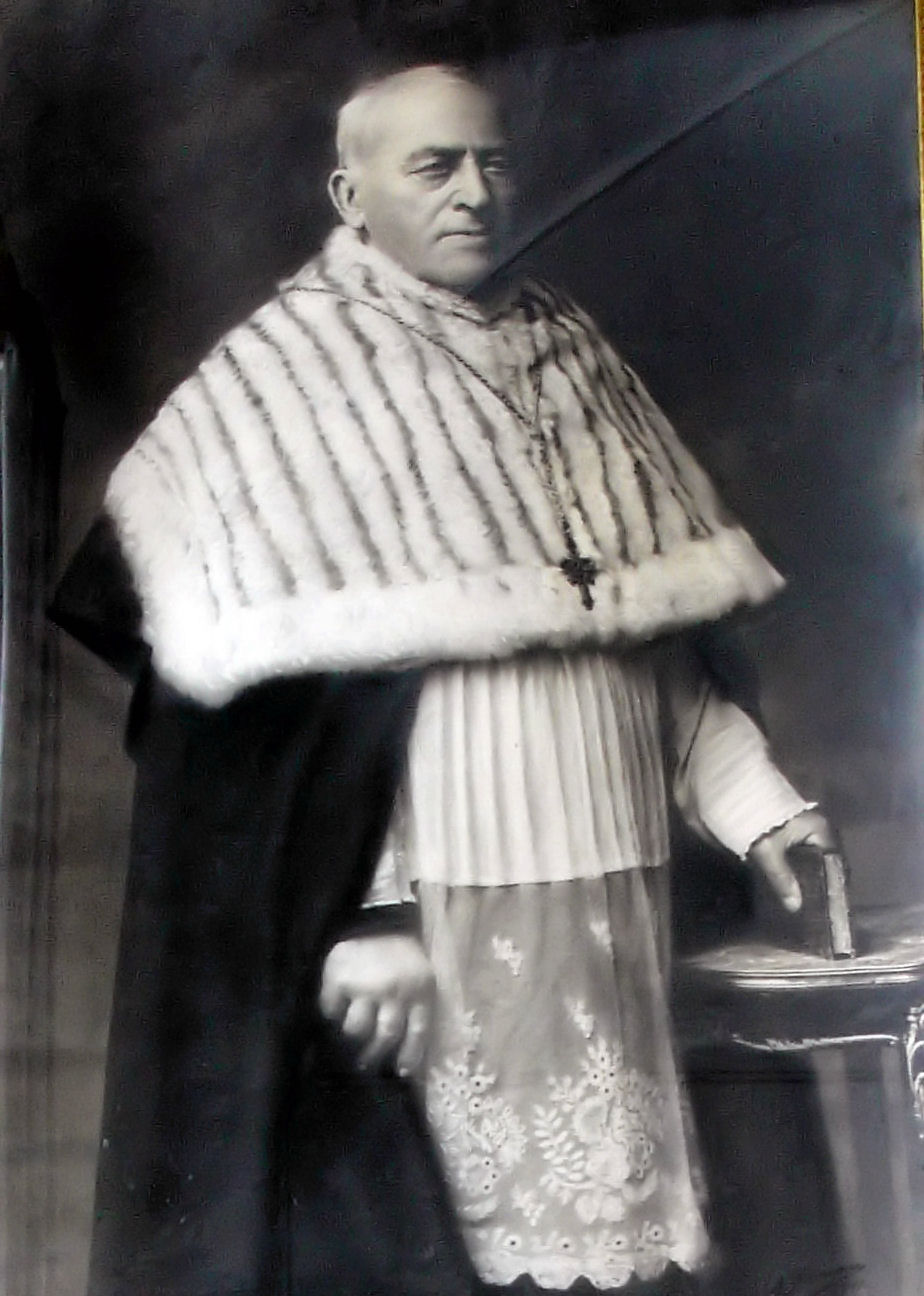 Old photo of a flemish Canon; Sint-Niklaas; Seminary Verzameling Sint-Jozef-Klein-Seminarie (college)